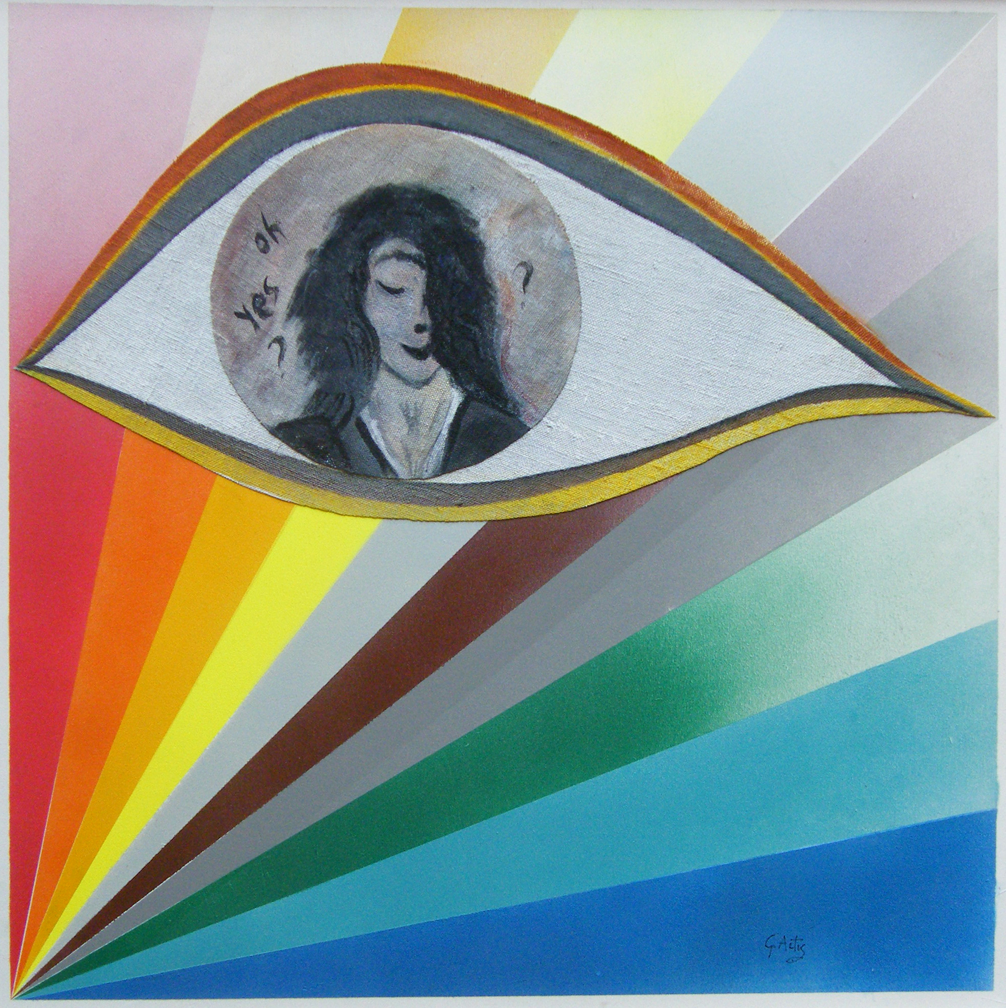 Painting created as a tribute to Lawrence Ferlinghetti on show at Promotrice delle Belle Arti, Torino (December 2014 - January 2015)